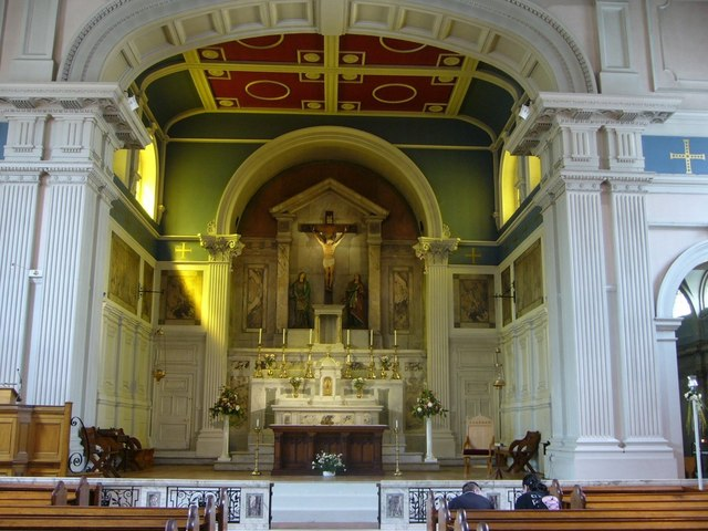 St Patrick's Church interior The original Episcopal Church had, as one would expect, a west-east orientation with the altar positioned at the east end. The Catholic altar is placed curiously on the north side.